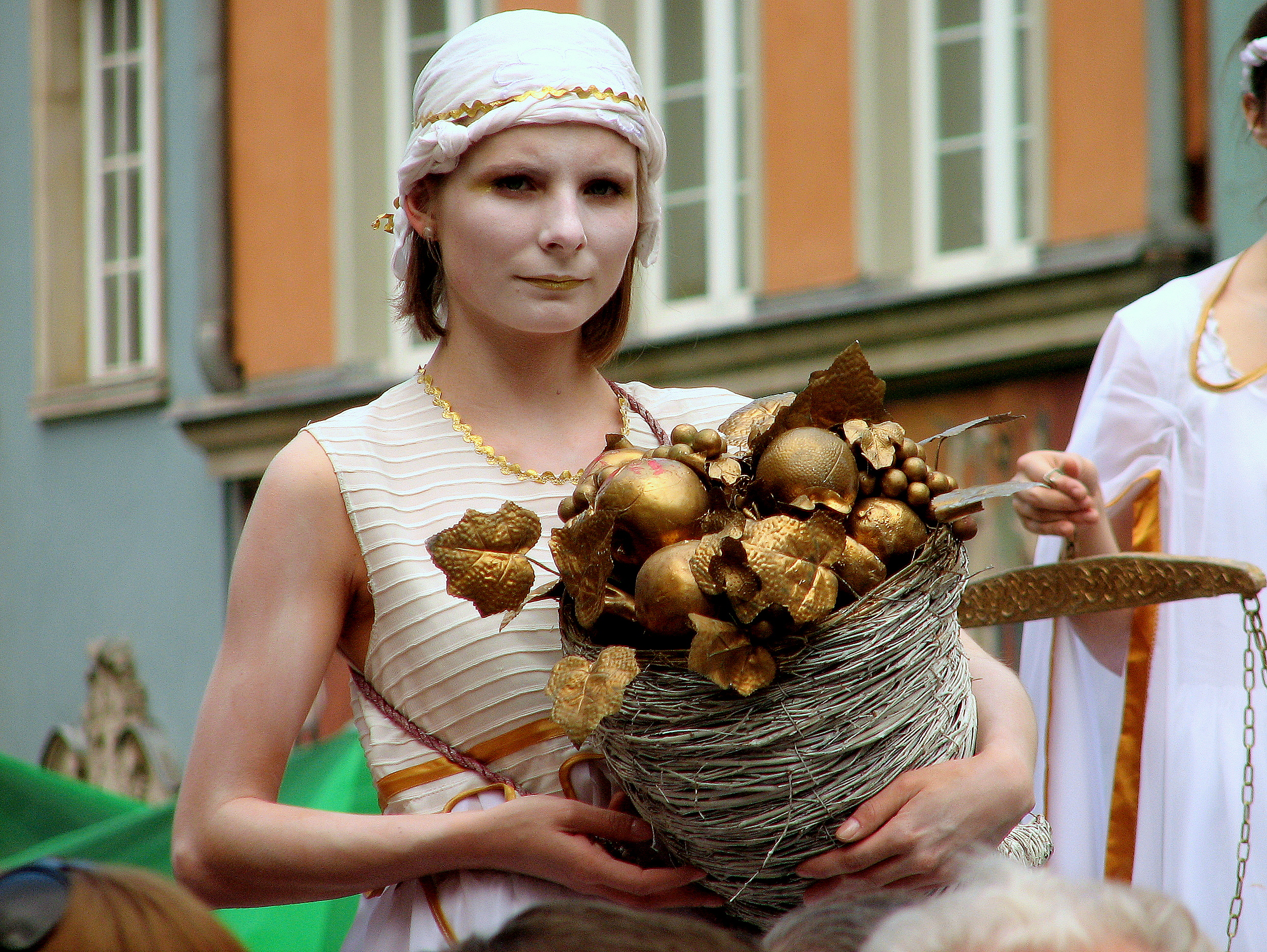 Amber Parade and preparation to common panoramic photo during III World Gdańsk Reunion.